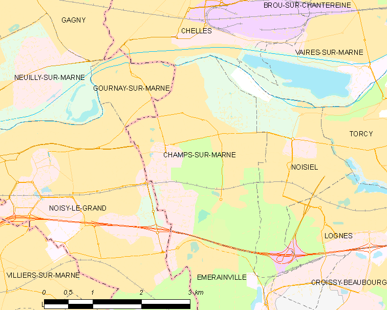 Map of French municipality Champs-sur-Marne